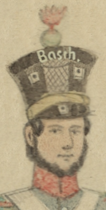 Cartoonist portrait of Carl Friedrich Irminger as a volunteer military (Freischärler). Detail of a watercolor pencil drawing by Johannes Ruff.